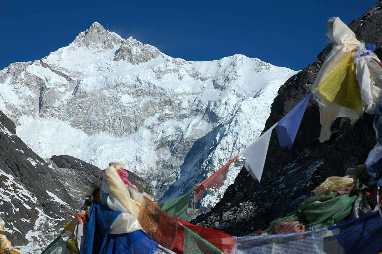 View of Kangchenjunga south-east from Goecha La pass.